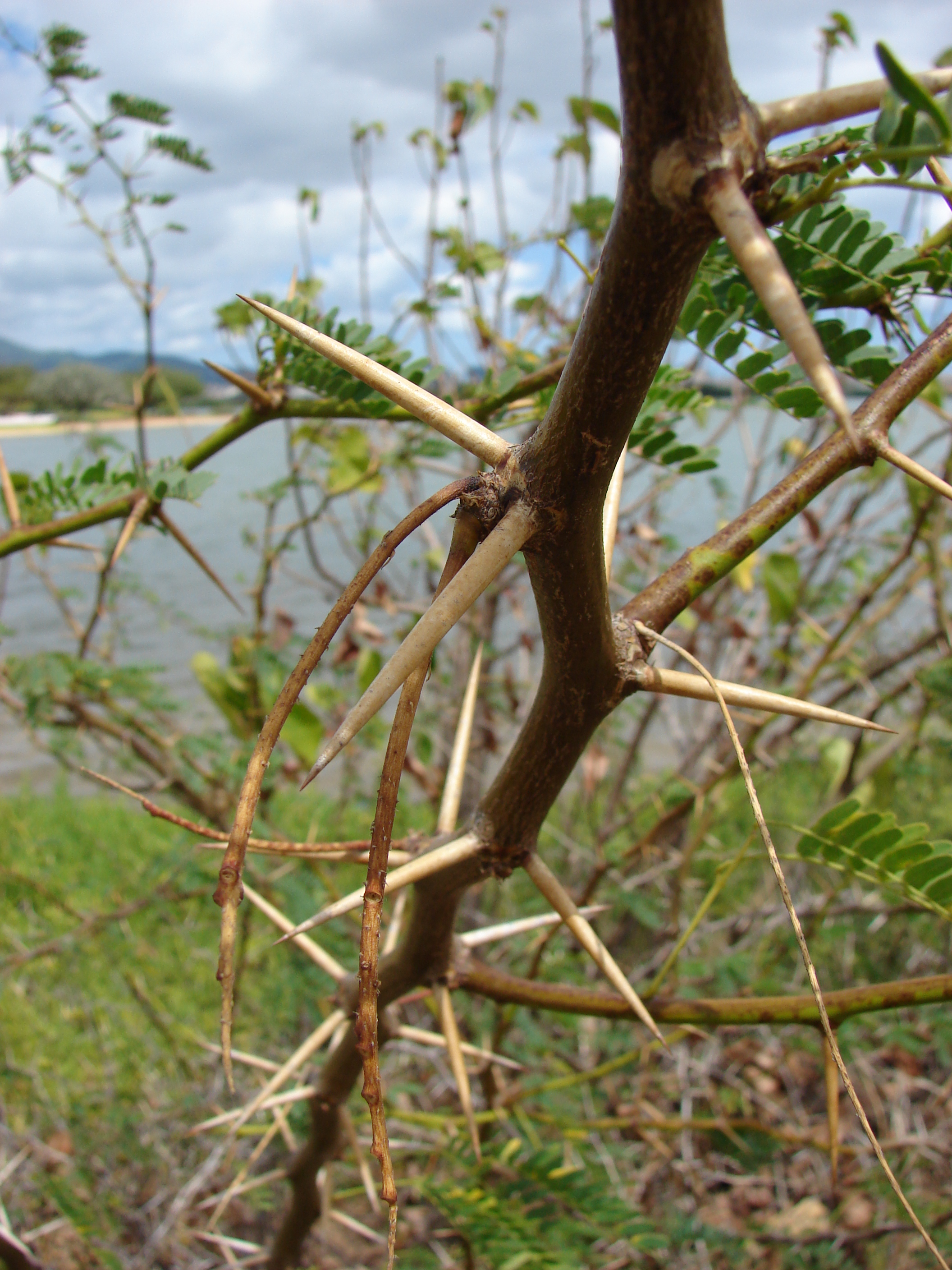 Prosopis juliflora (thorns). Location: Oahu, Keehi Lagoon